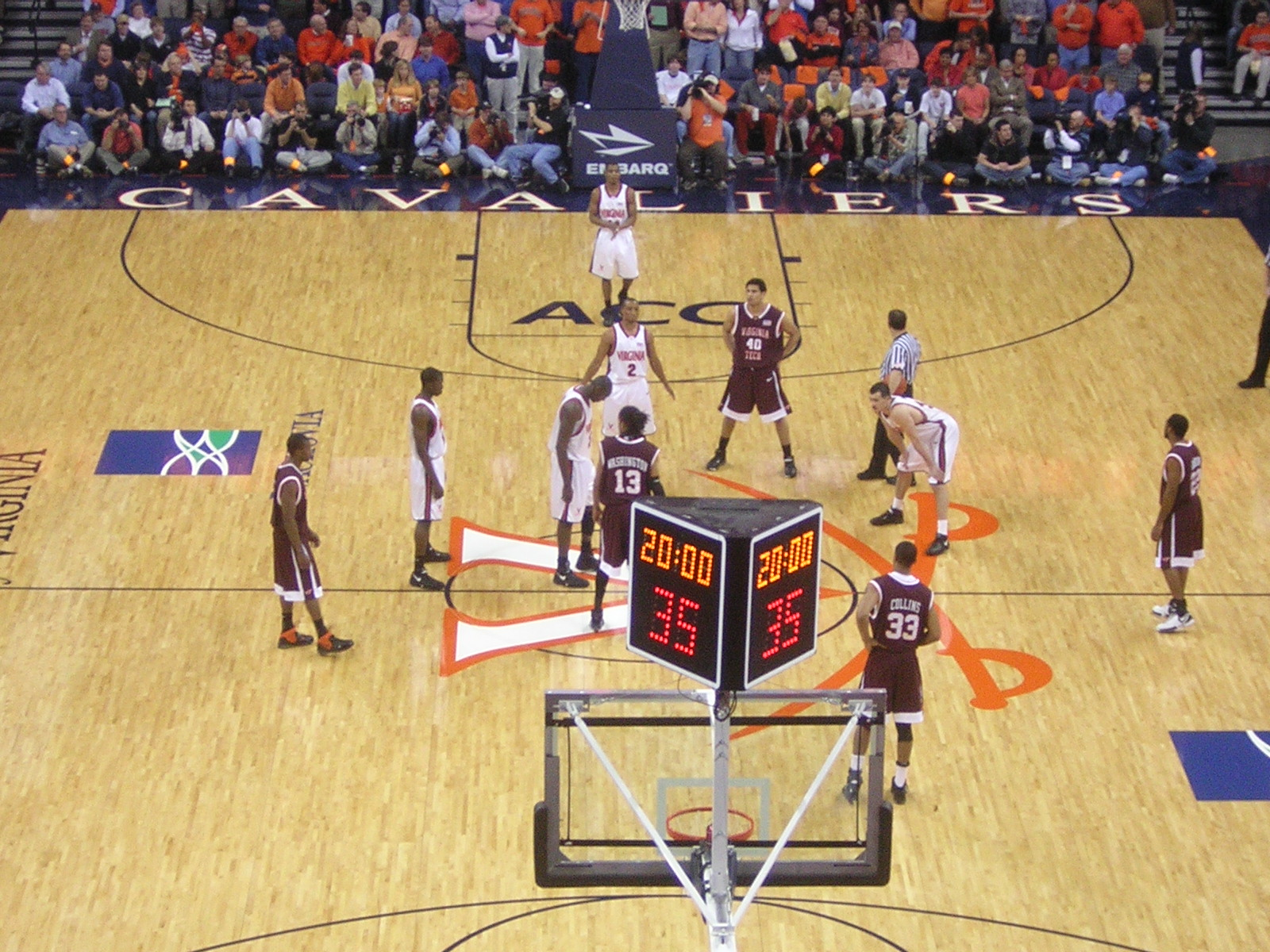 Virginia Tech and UVA just before tip-off at John Paul Jones Arena